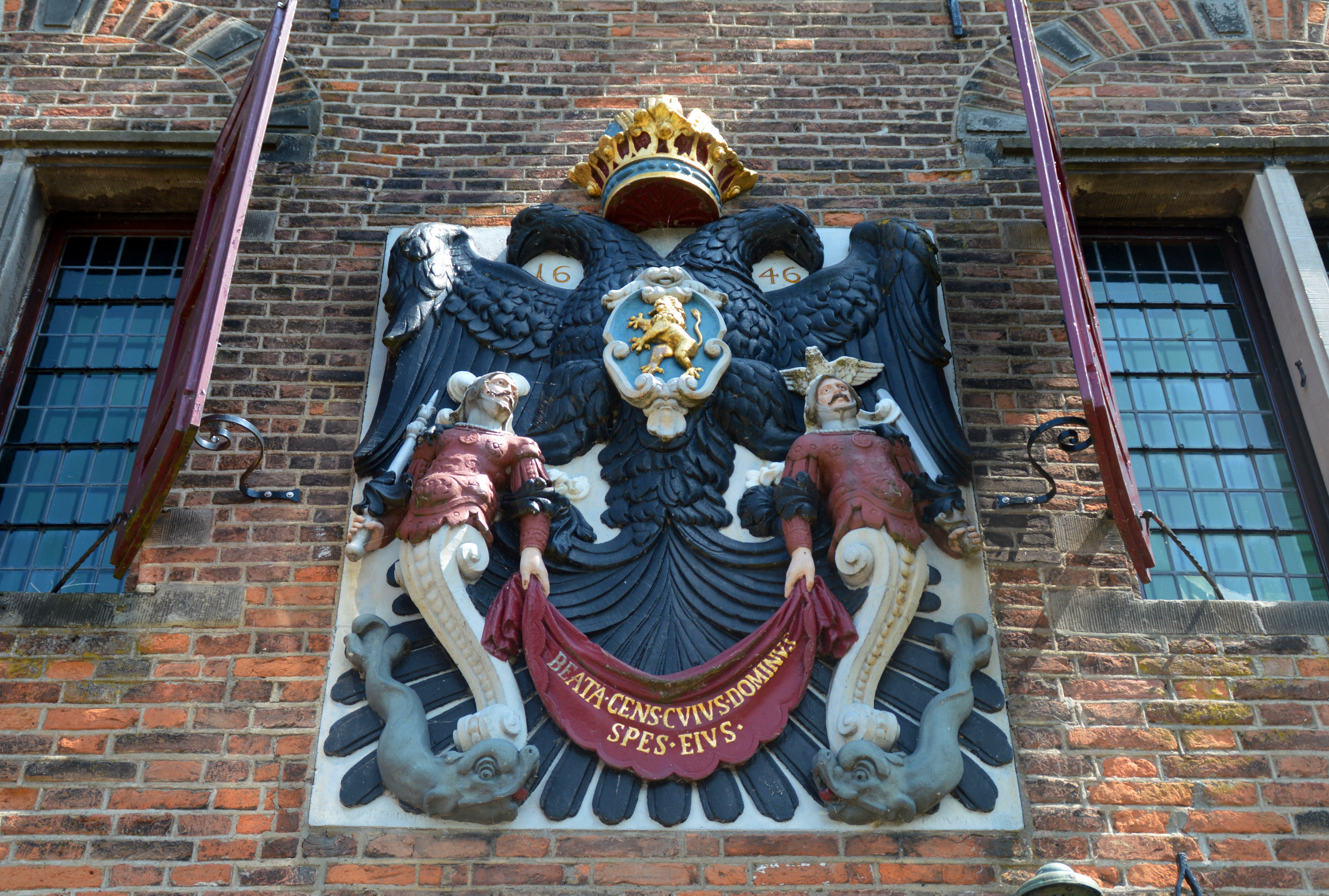 Belvédère facing brick, Hunnerpark Nijmegen 1646